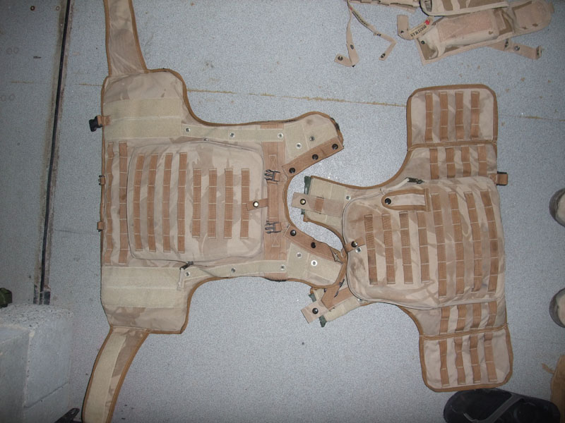 Osprey body armour fully undone. The wrap around fasteners clearly visible on the rear half (left) were introduced on the Mk.2 covers and help provide the wearer with a more secure and comfortable fit.